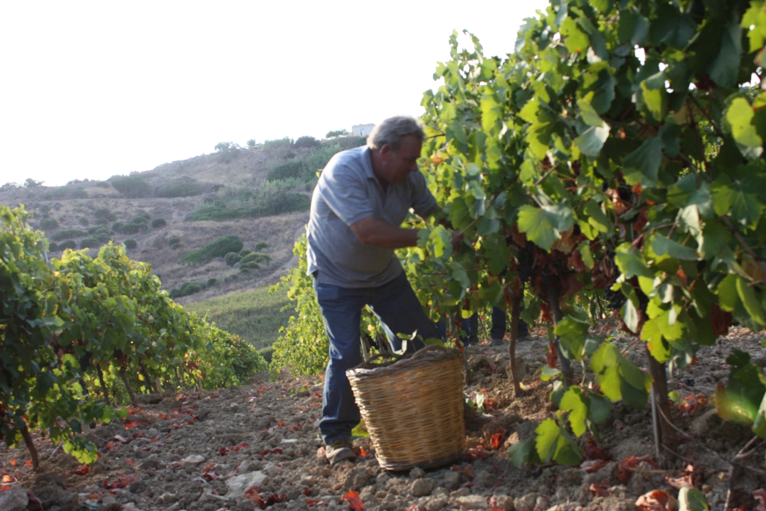 Wine grapes in the Italian wine region of Sicily being harvested by hand on the rocky soil.